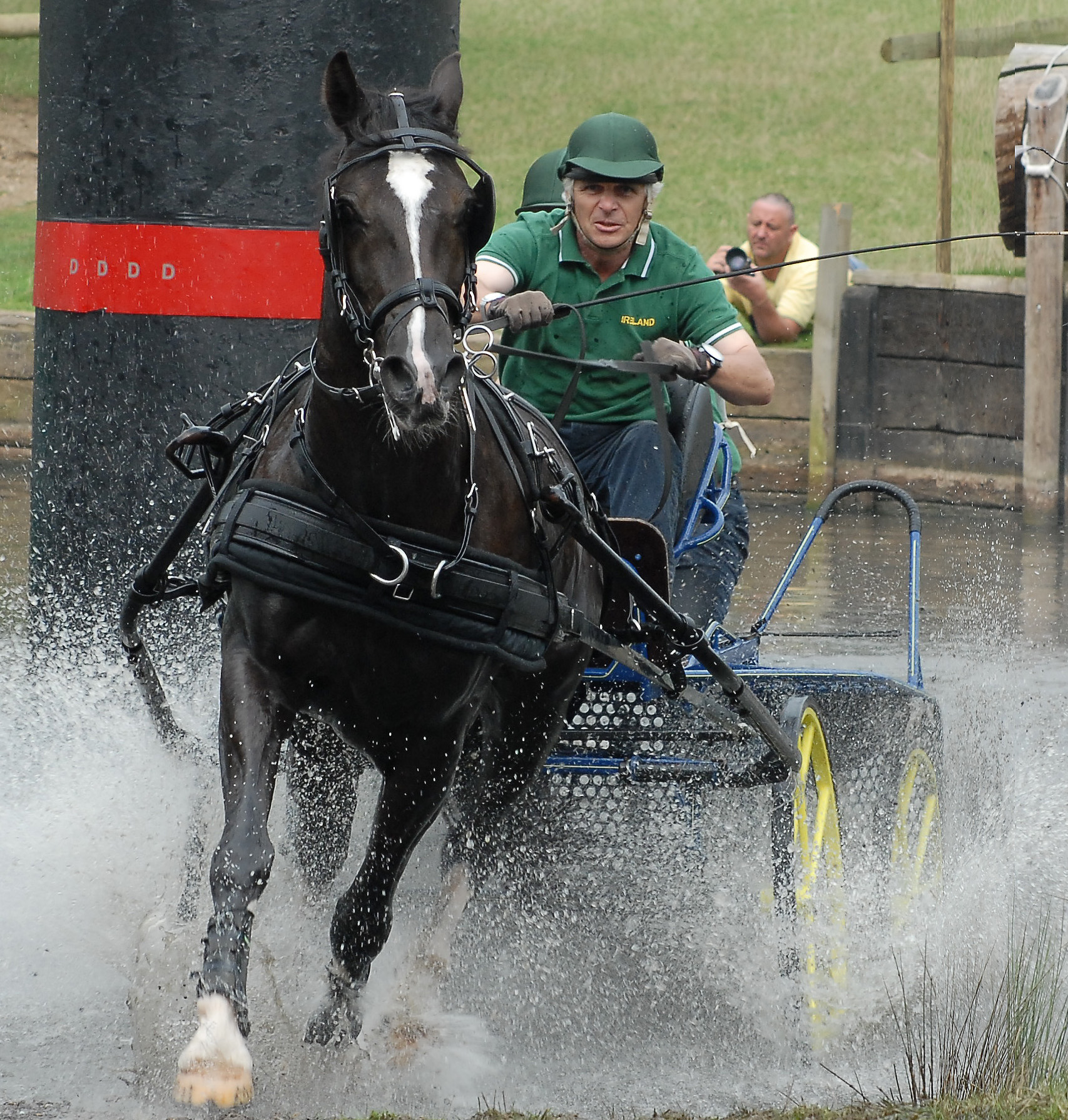 Irish driver Edwin Bryson exiting the water obstacle during the marathon phase of the British Horse Driving Trials National Championships at Windsor, England.